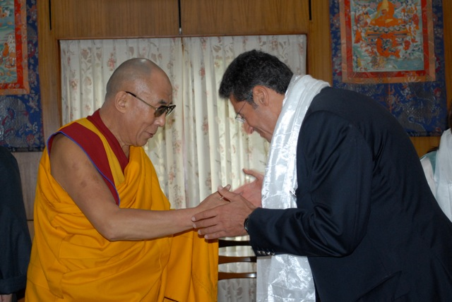 Maxime Chaya visiting the Dalai Lama